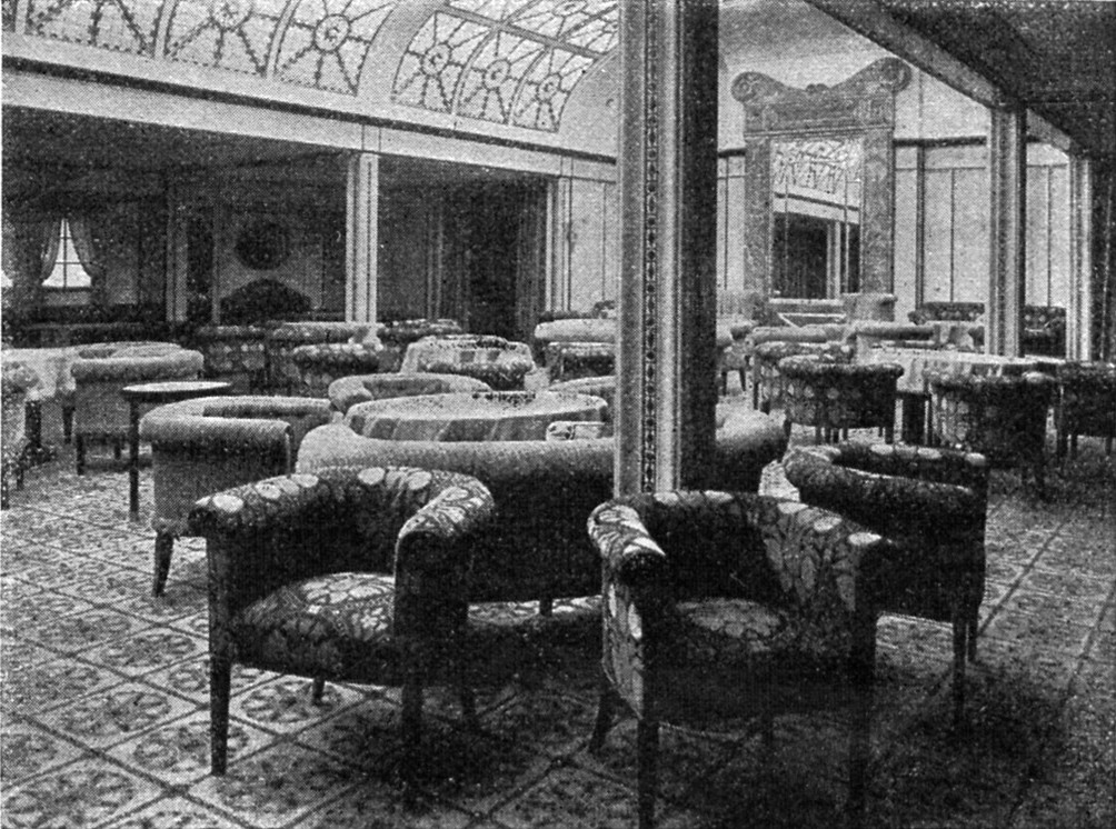 Wintergarden and Salon for 1st Class passengers of the George Washington luxury steamer, built by the Norddeutsche Lloyd in 1909